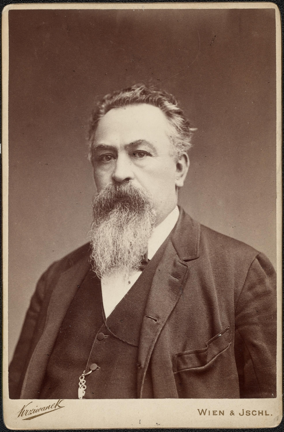 Eduard Albert, Czech surgeon and Profesor.